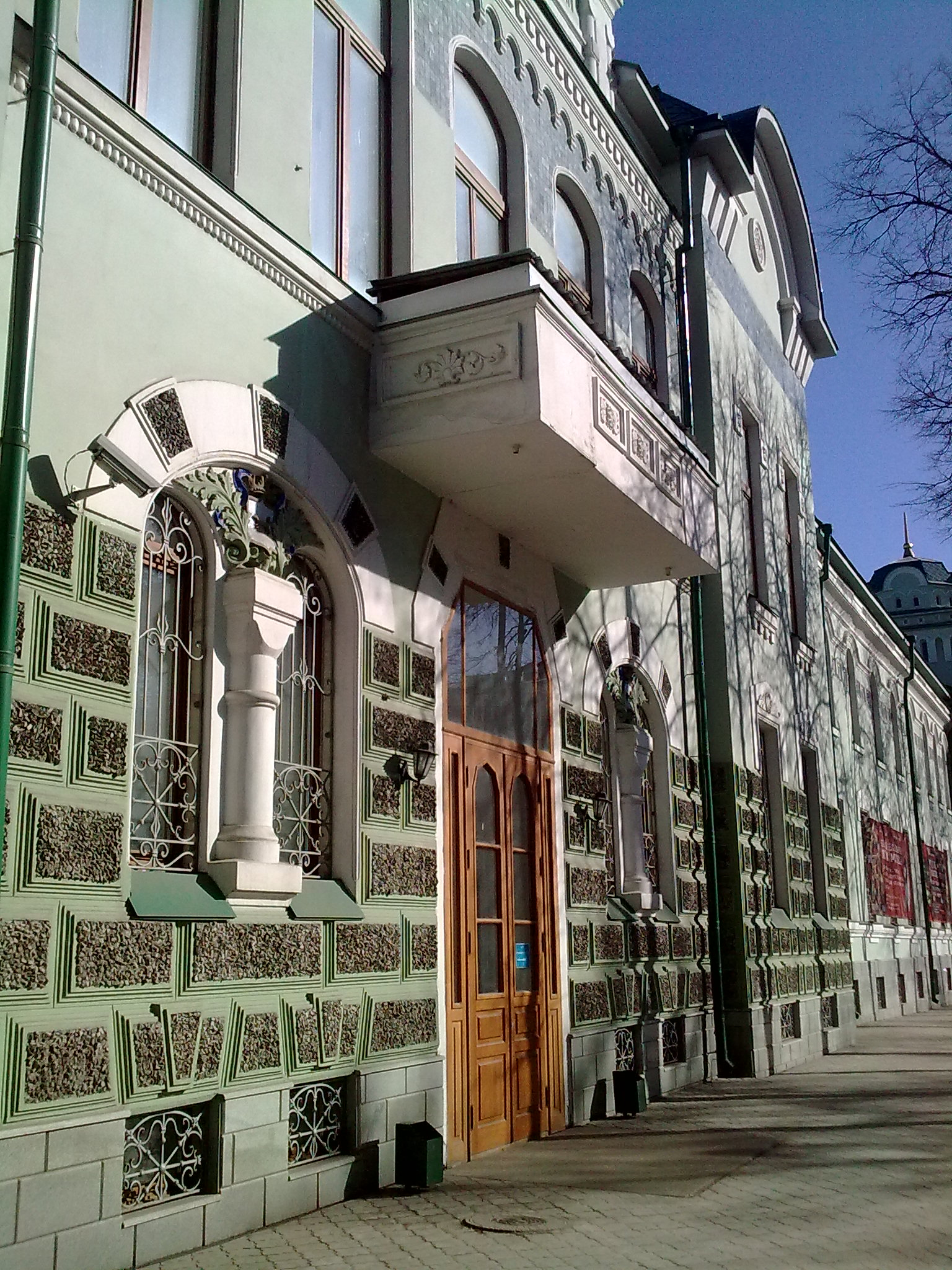 National museum in Ufa, Russia